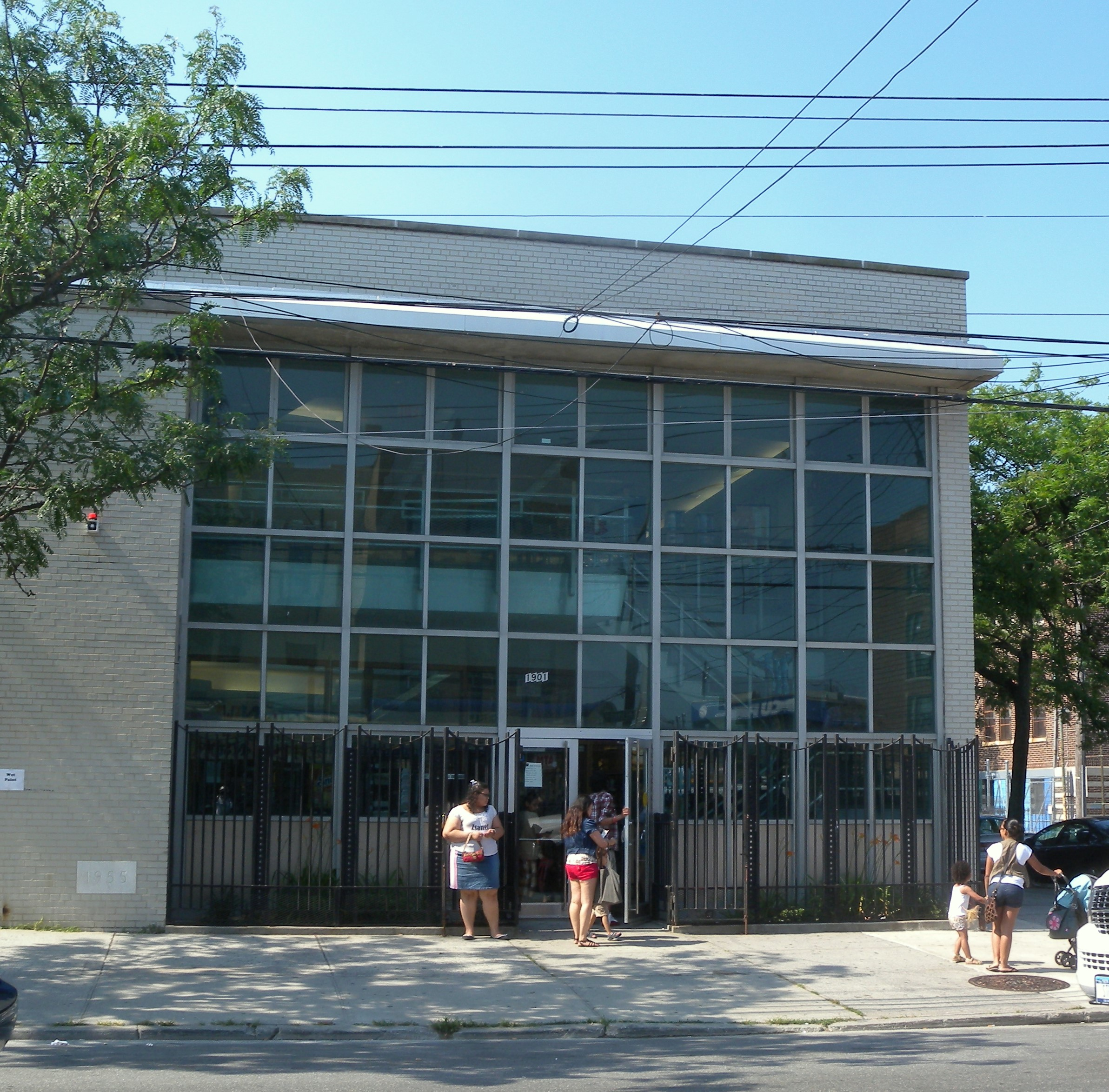 Coney Island Branch - Brooklyn Public Library - Looking north across Mermaid Ave at BPL.